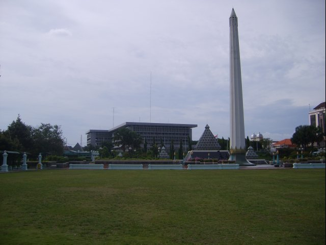 Heroic Monument at Surabaya